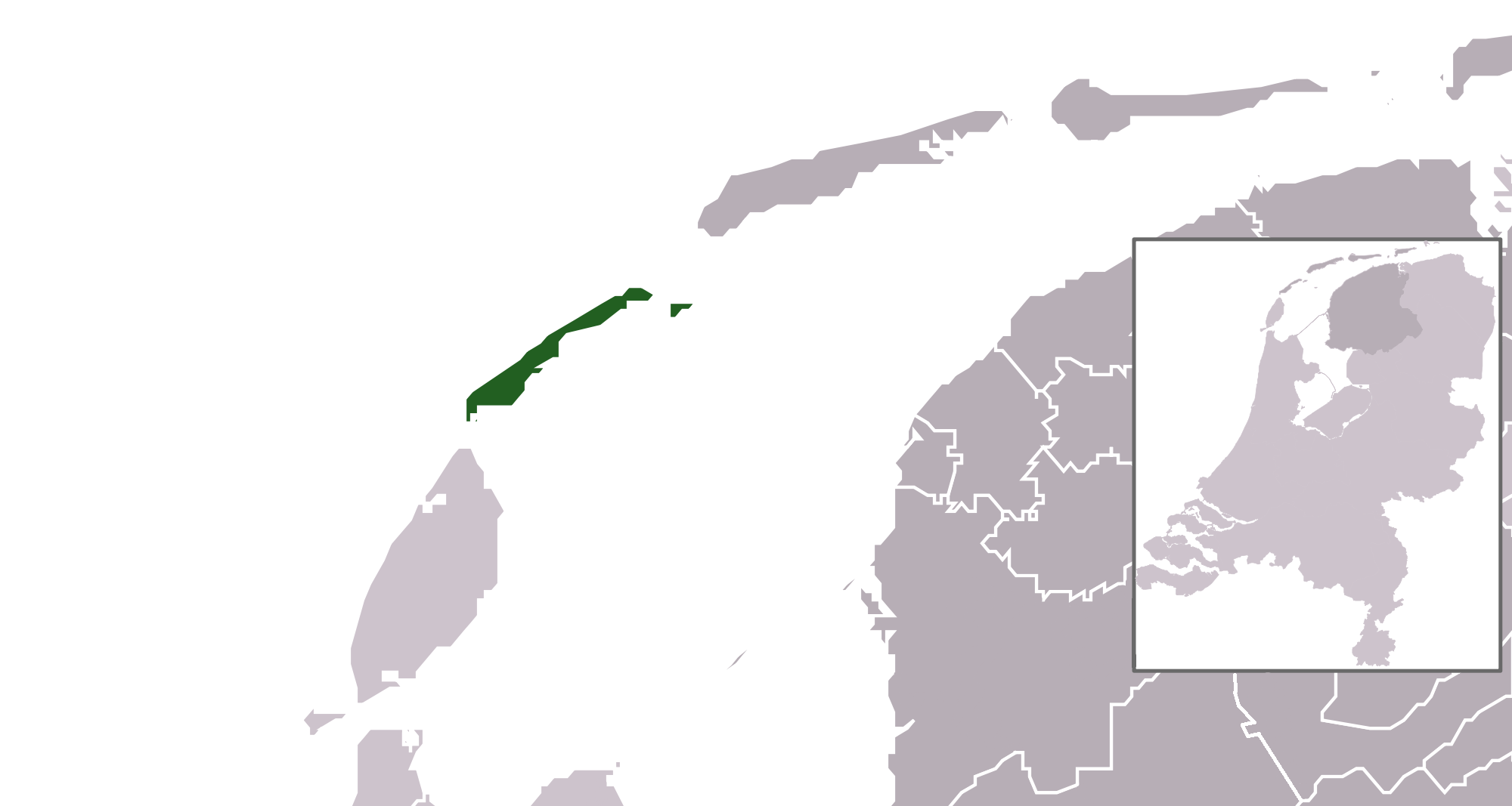 Location maps for the 441 municipalities in the Netherlands. Boundaries 1/1/2009 Automatically generated with script File name contains "Municipality code" (CBS-code) as specified in: [1] Created in svg using coordinate data derived from ESRI data published by Centraal Bureau voor de Statistiek, Voorburg/Heerlen. ([2]) Color coding and original design (slightly adpated by me) by user Mtcv (2006/2007) ([3]) Updated until January 1, 2014 The copyright holder of this file, Centraal Bureau voor de Statistiek, allows anyone to use it for any purpose, provided that the copyright holder is properly attributed. Redistribution, derivative work, commercial use, and all other use is permitted. Attribution: Centraal Bureau voor de Statistiek This work is free and may be used by anyone for any purpose. If you wish to use this content, you do not need to request permission as long as you follow any licensing requirements mentioned on this page.